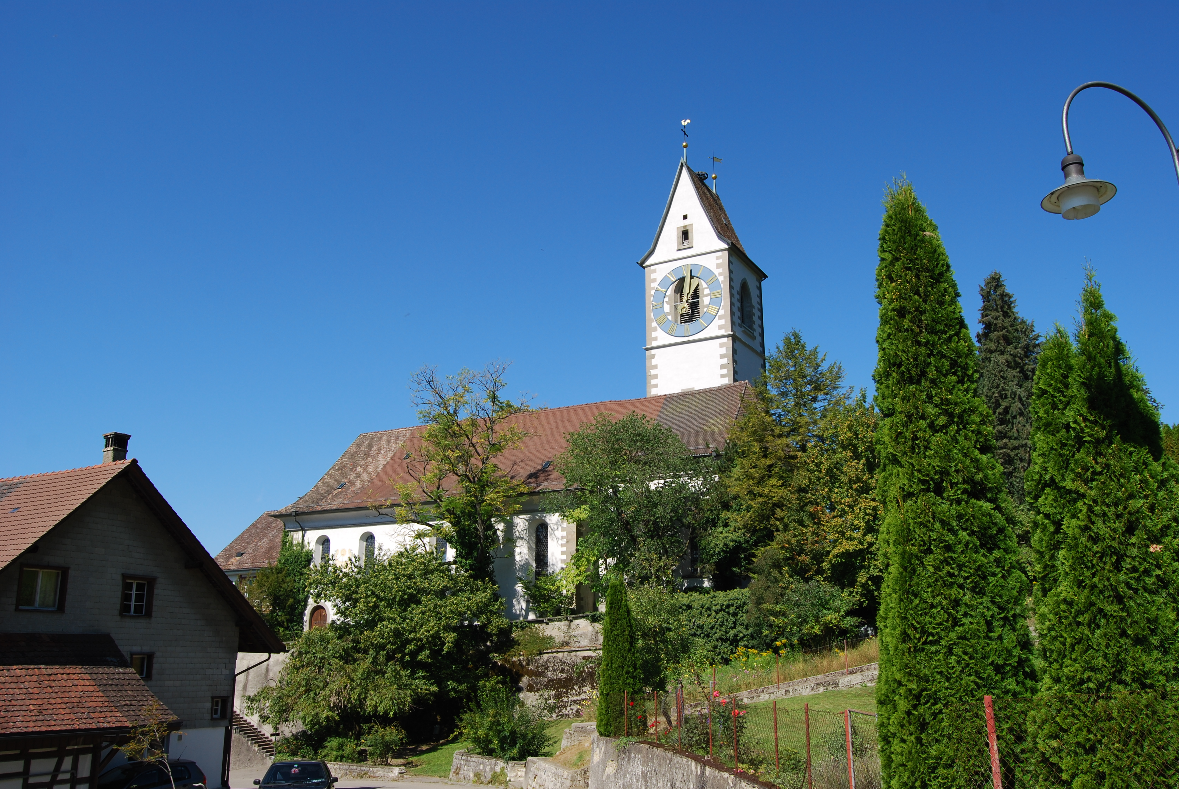 Church of Unterstammheim, canton of Zürich, SwitzerlandEsperanto: Preĝejo de Unterstammheim, Kantono Zürich, Svislando